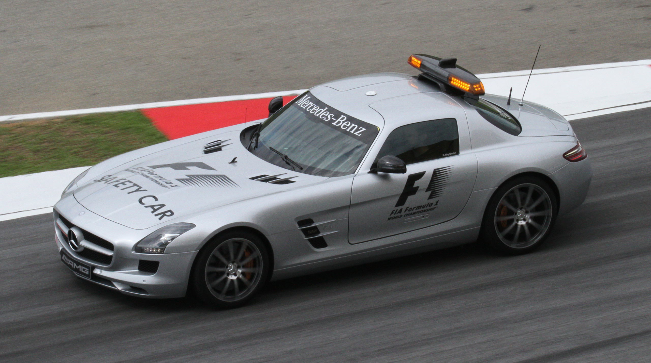 Formula One 2010 Rd.3 Malaysian GP: Mercedes-Benz SLS Formula One safety car